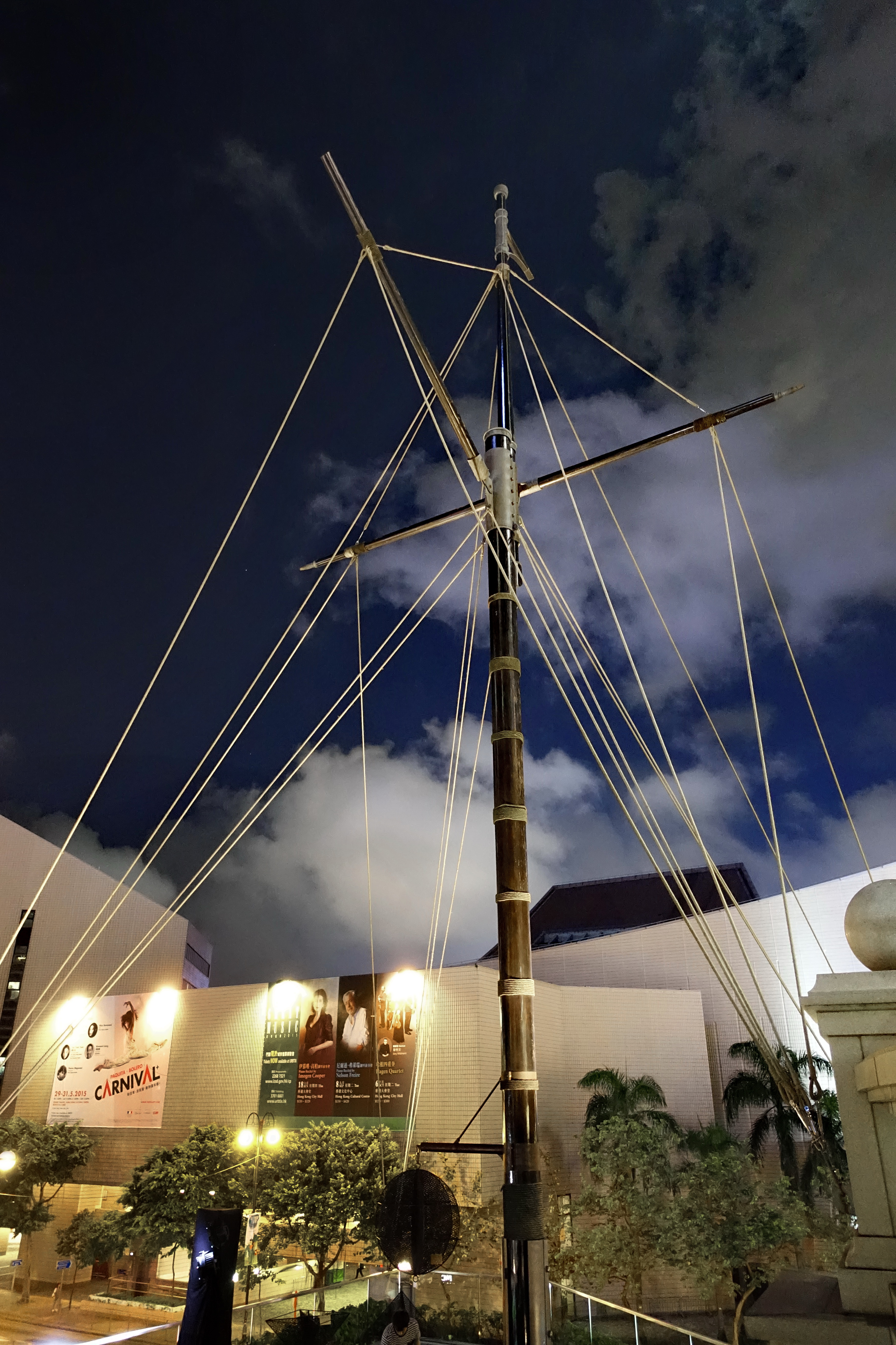 Former typhoon mast, 1881 Heritage, Tsimshatsui, Kowloon, Hong Kong.